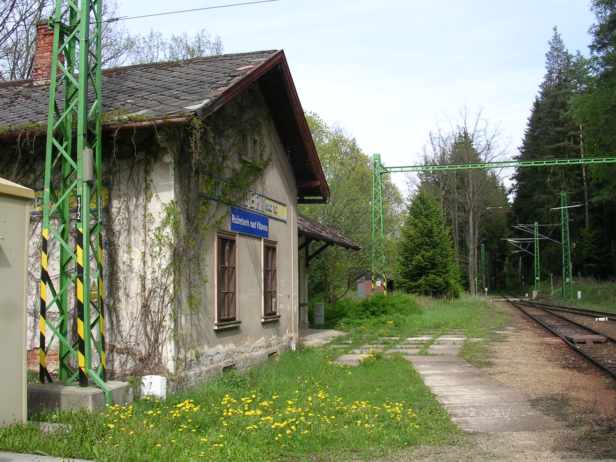 Dolní Dvořiště, train station Rožmberk nad Vltavou, the Czech Republic.